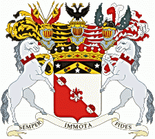 Coat of arms of the Counts of Vorontsov family.